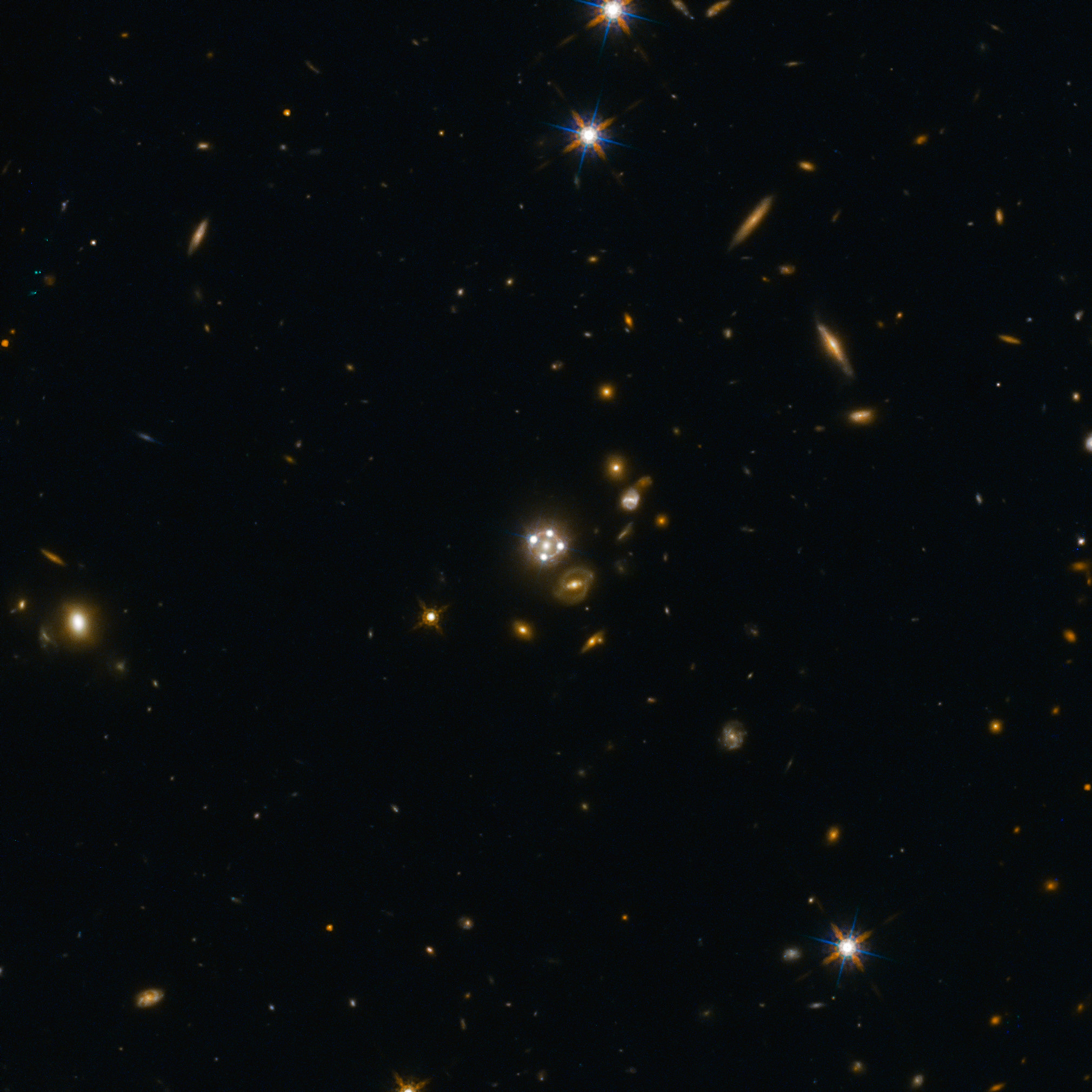 HE0435-1223, located in the centre of this wide-field image, is among the five best lensed quasars discovered to date. The foreground galaxy creates four almost evenly distributed images of the distant quasar around it.